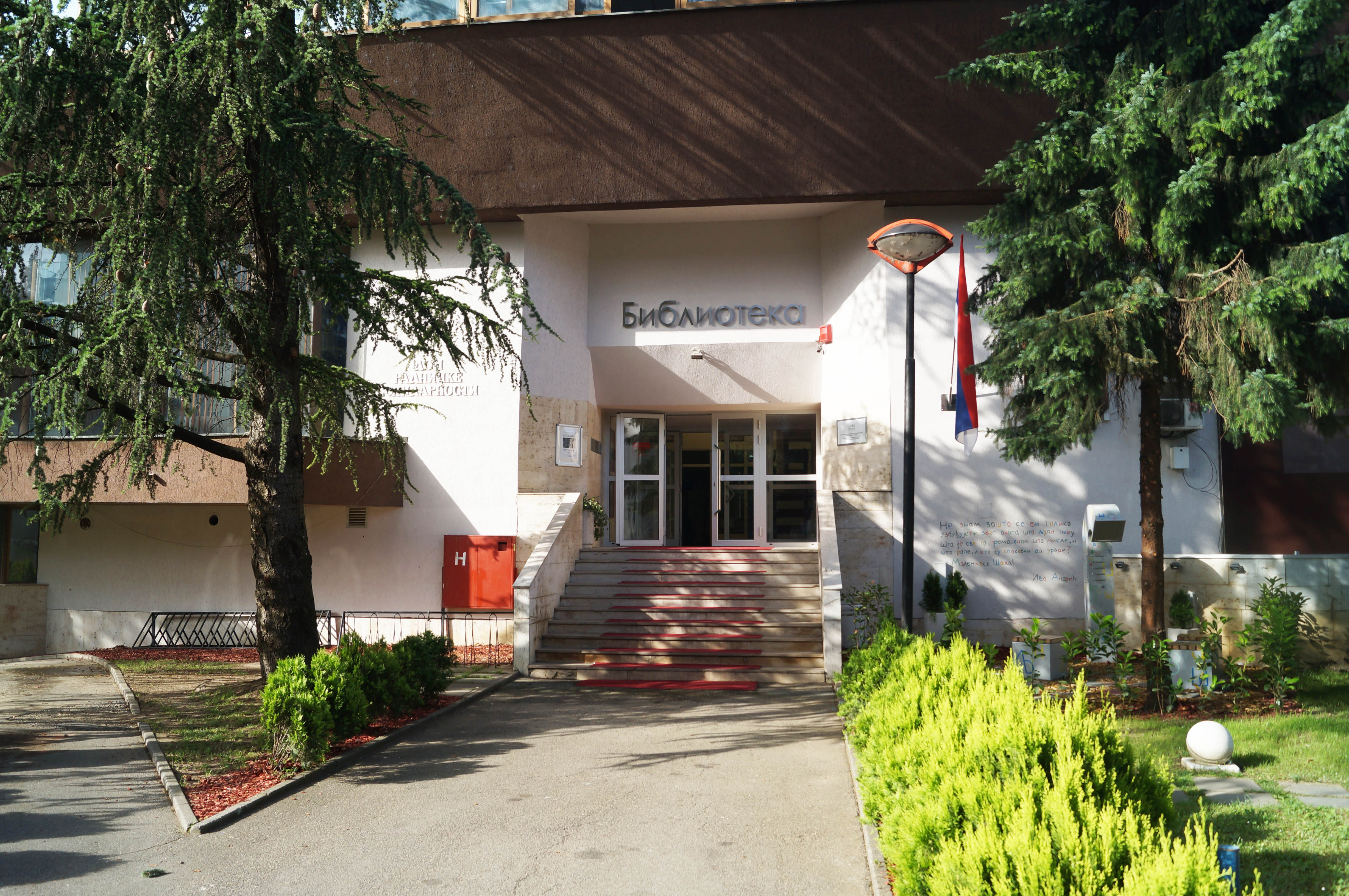 Entrance to The National and University Library of Republic of Srpska